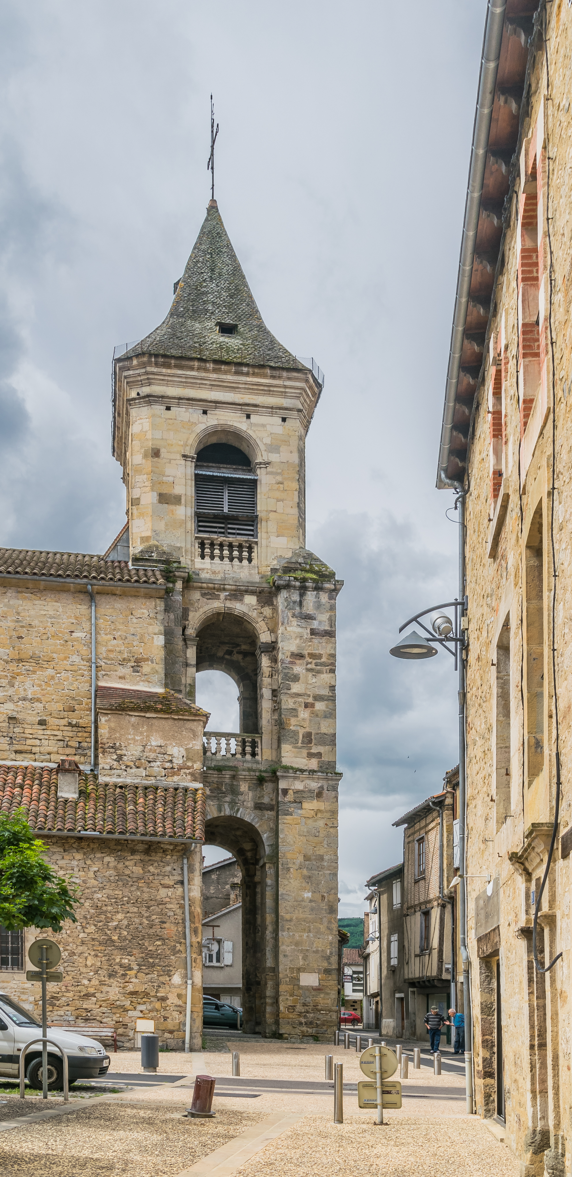 Bell tower of the Saint Spérie Church of Saint-Céré, Lot, France .